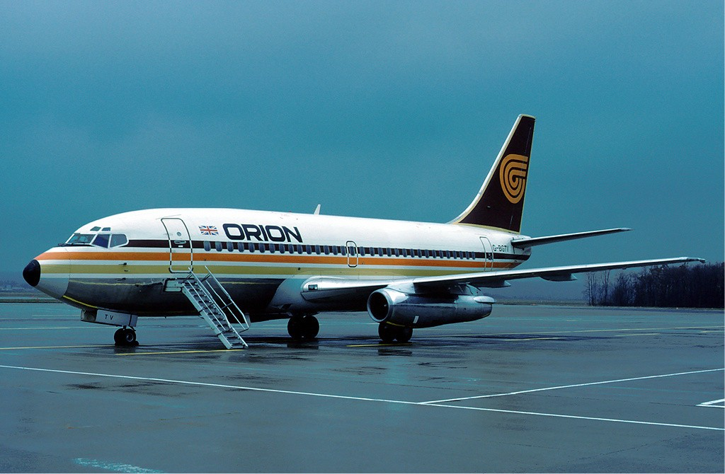 A Boeing 737-200 of Orion Airways at Basle Airport